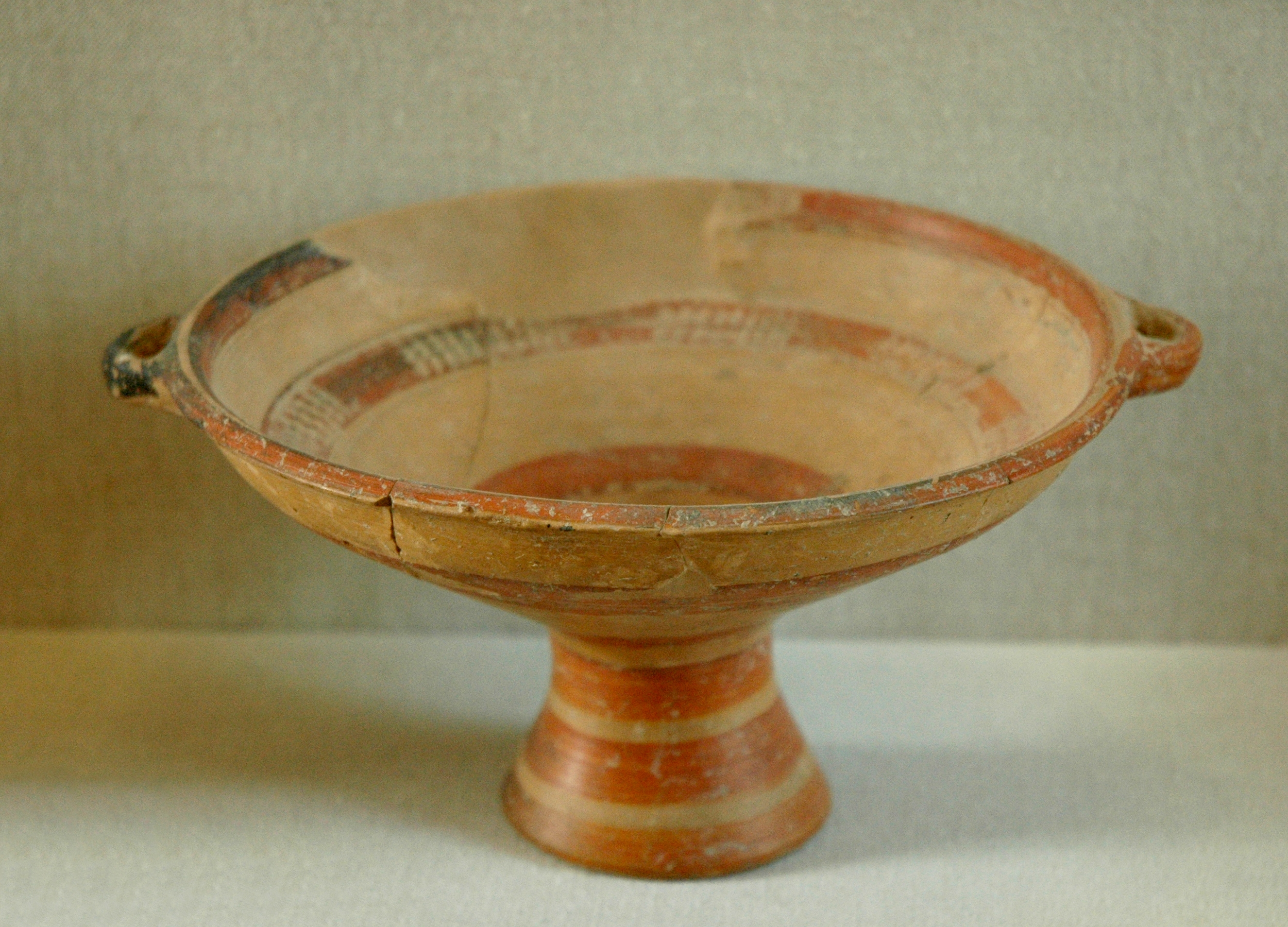 Mycenaean high-footed cup, 14th-13th centuries BC, imported to Ugarit. Found in the cemetary of Minet el-Beida (harbour of ancient Ugarit), tomb 5.